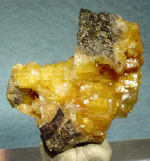 Thomsenolite, Pachnolite Locality: Ivigtut Cryolite deposit, Ivittuut (Ivigtut), Arsuk Firth, Arsuk, Kitaa (West Greenland) Province, Greenland (Locality at ) Size: 4.9 x 3.6 x 3.2 cm. Thomsenolite and pachnolite are very rare halides and this old-time, very rich, showy and excellent specimen hails from the Type Locality for both species - the Cryolite Deposit, Ivigtut, Greenland. A multi-sided vug in matrix is filled with stepped, white thomsenolite crystals, which are in turn, richly covered with prismatic microcrystals of pachnolite, a dimorph of thomsenolite. Most of the crystals are oxide-coated, which adds a very nice contrast. Probably mined around 1900. Ex. George Elling Collection.